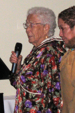 Poldine Carlo (Koyukon), an Athabaskan author from Alaska